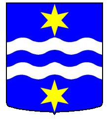 Coat of arms of Nesslau-Krummenau in Switzerland